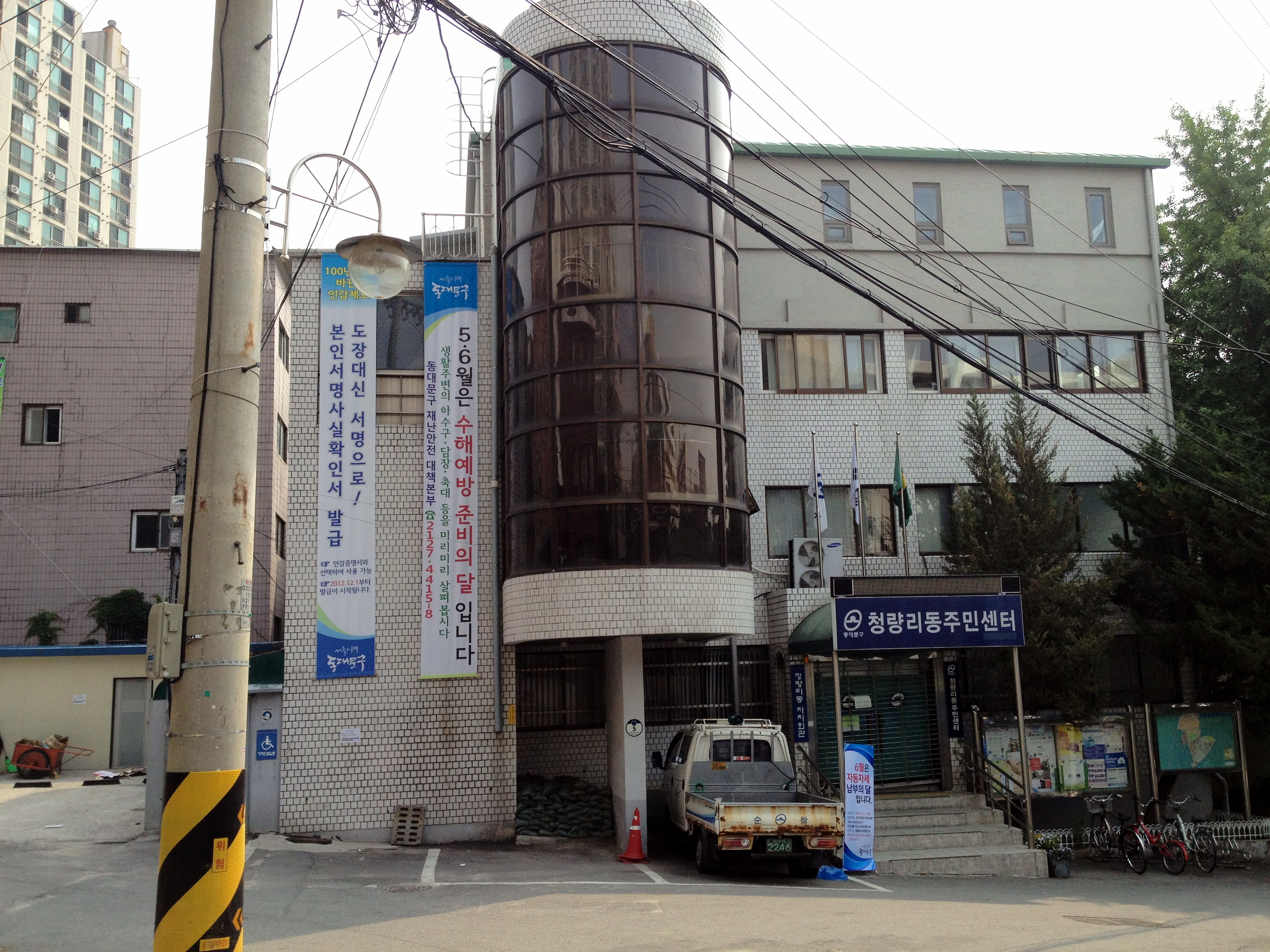 Cheongnyangni-dong Community Service Center(Dongdaemun-gu)